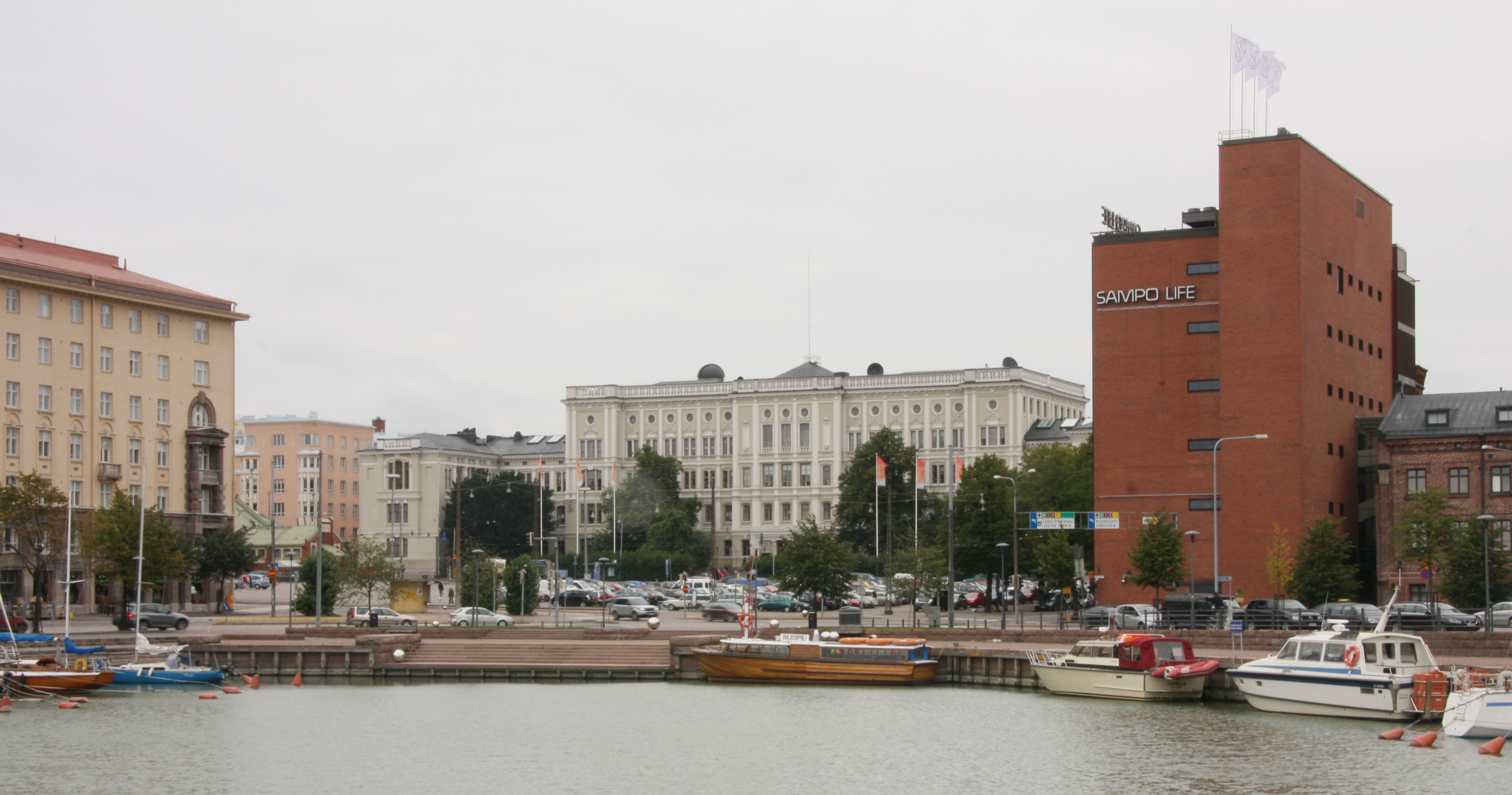 Hietalahti, Helsinki